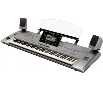 mifhhhd